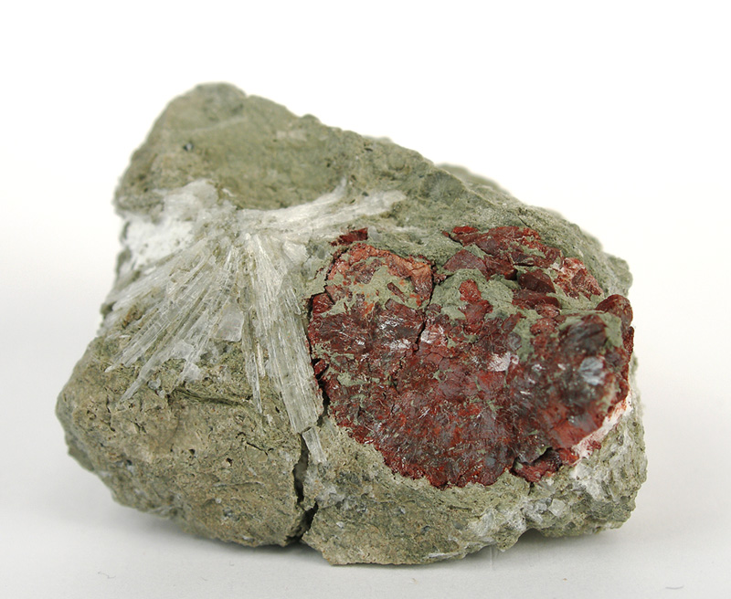 Gerstleyite Locality: Baker mine, U.S. Borax Mine (Pacific West Coast Borax; Pacific Coast Borax County; Boron Mine; U.S. Borax and Chemical Corp.; Kramer Mine; Baker Mine), Kramer Borate deposit, Boron, Kramer District, Kern County, California, USA (Locality at ) Size: miniature, 4 x 3 x 2 cm Gerstleyite Gerstleyite is an extremely rare sulfosalt , in fact I'd warrant so rare on the market that most people, even diehard sulfide lovers, have never seen one. This was the first known sodium sulfosalt according to MinDat. This specimen is from the original find and the original collector as reported to me on the label from the previous owner (see below - I trust his sourcing on that information). It is a textbook nodule of crystallized gerstleyite in matrix from this boron open pit mine, collected by a man named Vincent Morgan in 1954. From him, it was sold to a friend who is a very well known collector of rare sulfides and sulfosalts, now a professor of minalogy himself, Frank Keutsch. He told me this is one of a few he obtained long ago. Certainly, this is a good one, and is the best I know of around the market - well, its the ONLY one I know of on the market since I first heard of it a decade ago, put it that way.